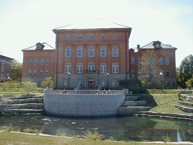 Engineering Hall, UIUC Campus